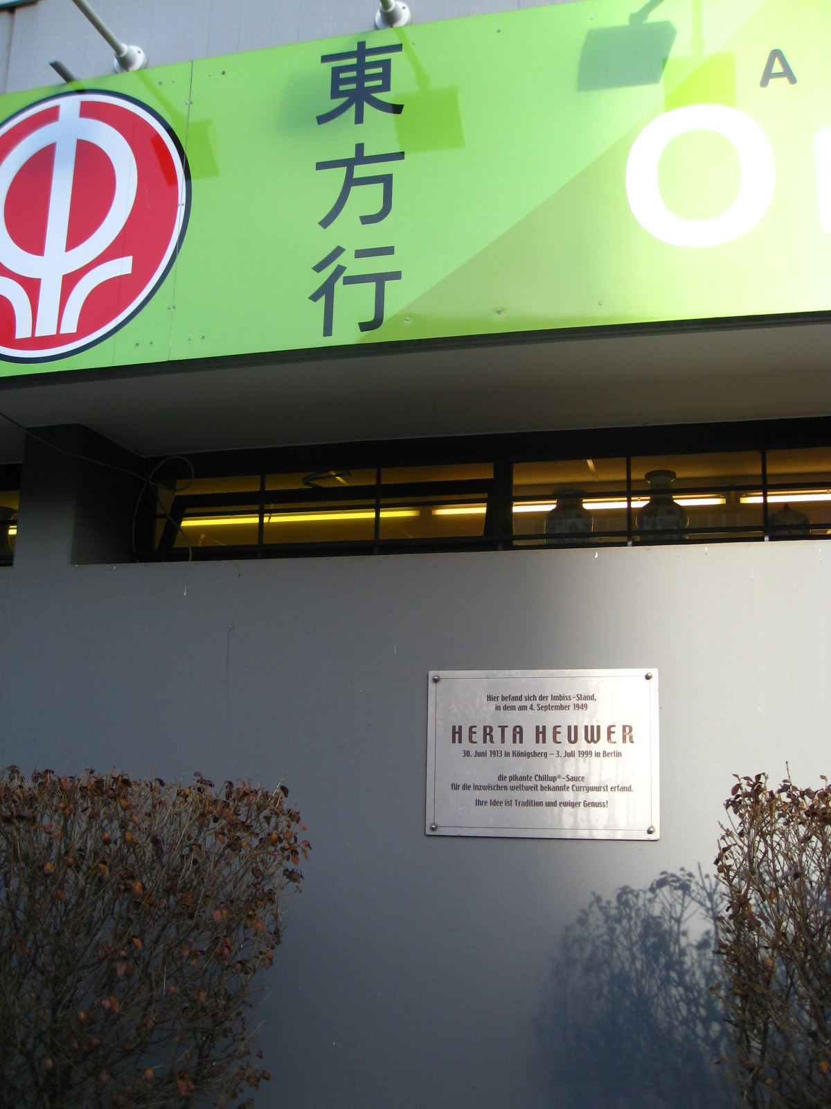 Memorial plaque to chef Herta Heuwer (1913–1999).